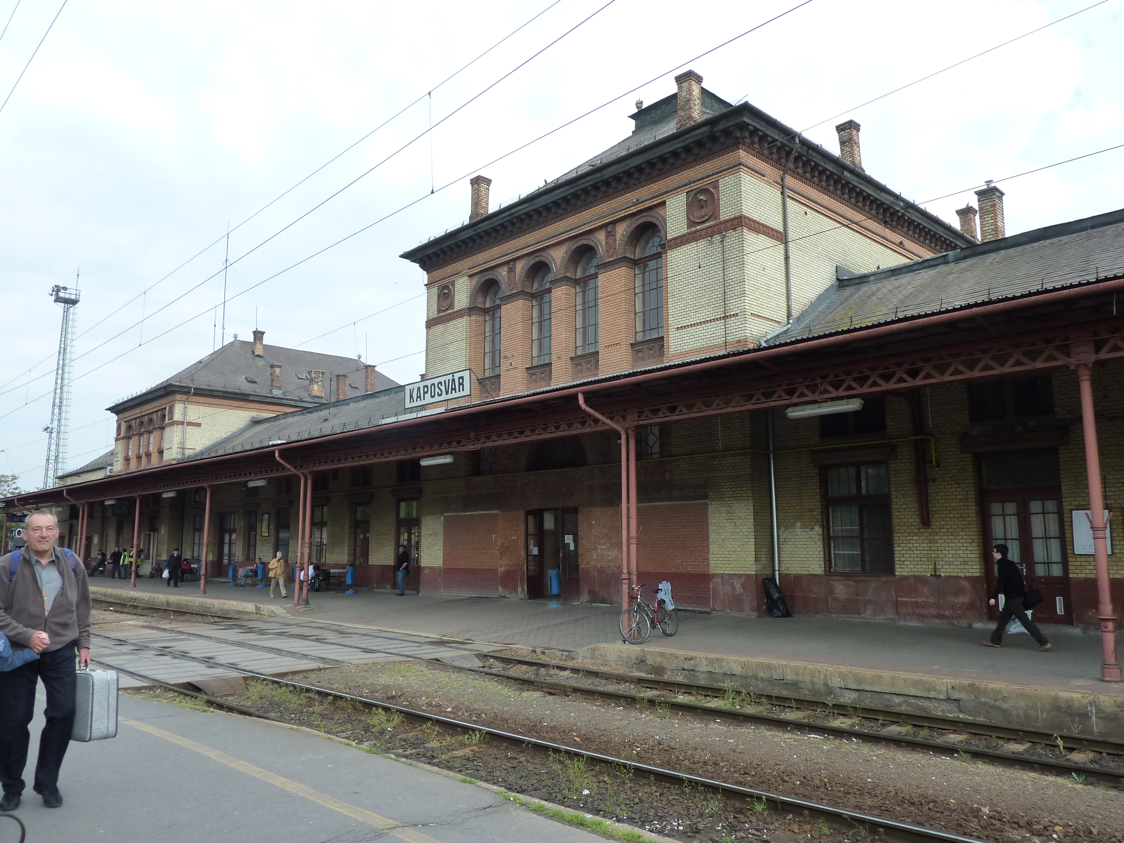 Railway station Kaposvár, in Hungary This is a photo of a monument in Hungary. Identifier: -12760